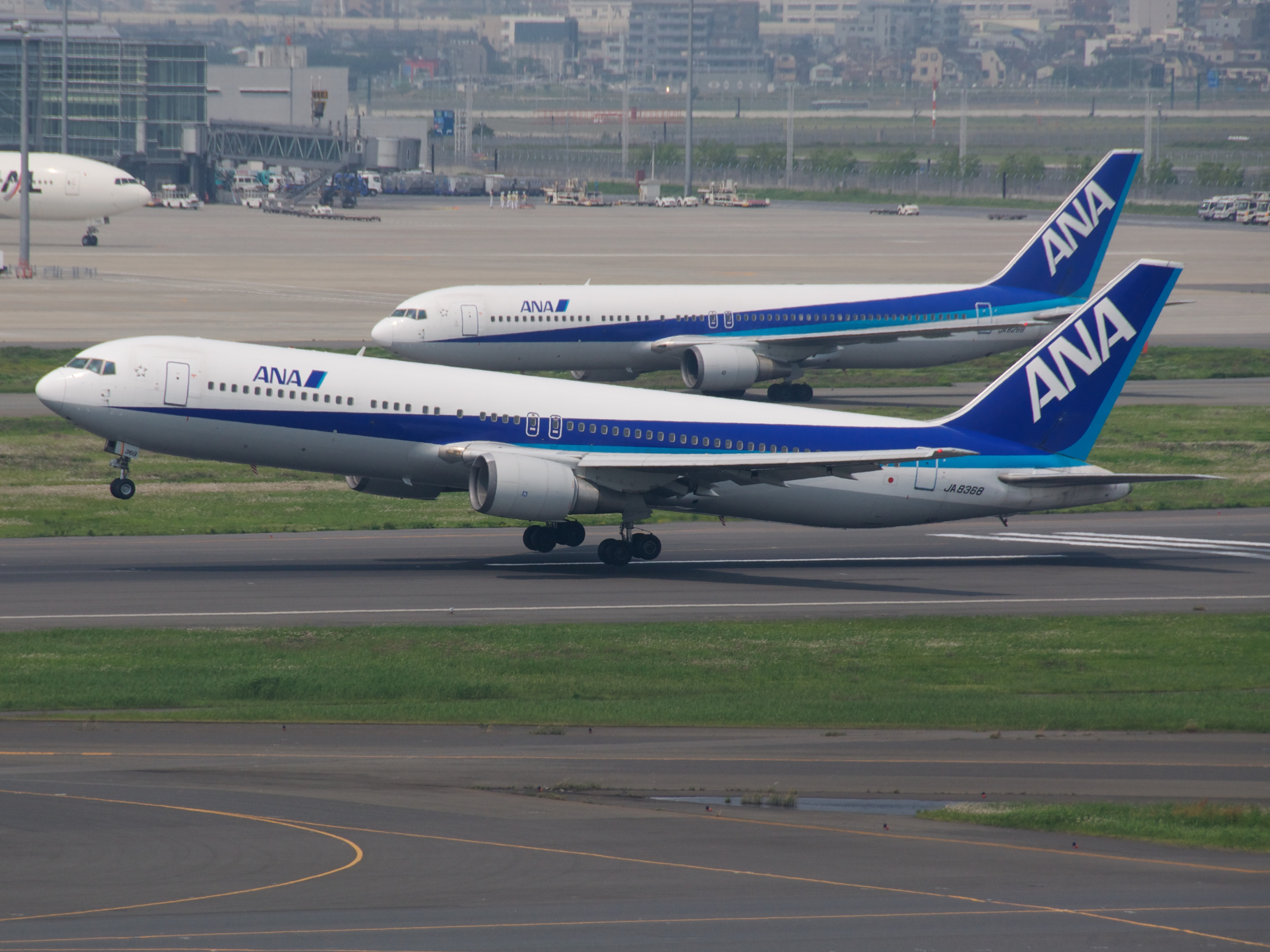 Departing Tokyo International Airport HND